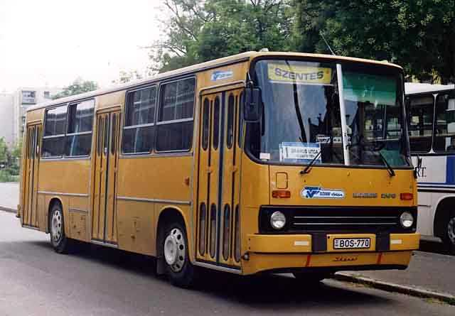 Former MÁV Ikarus 260 prototype railbus already as local bus in own of Tisza Volán Co. in Szentes bus station